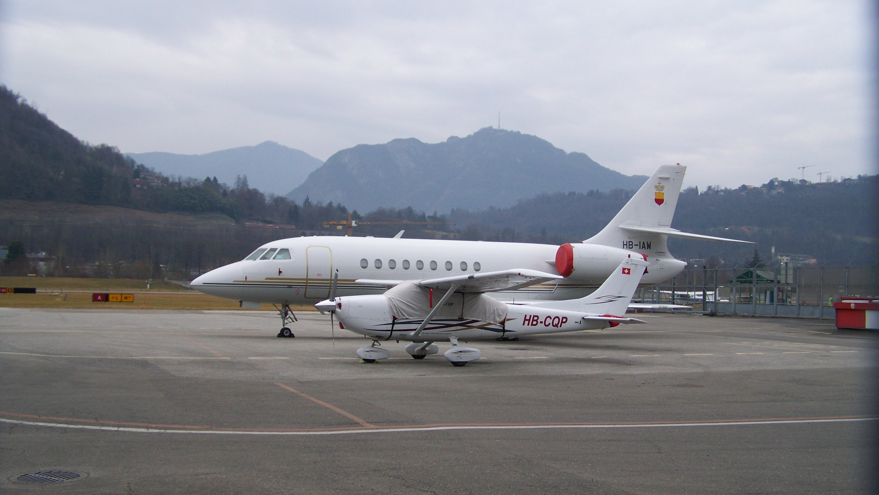 HB-IAW + HB-CQP